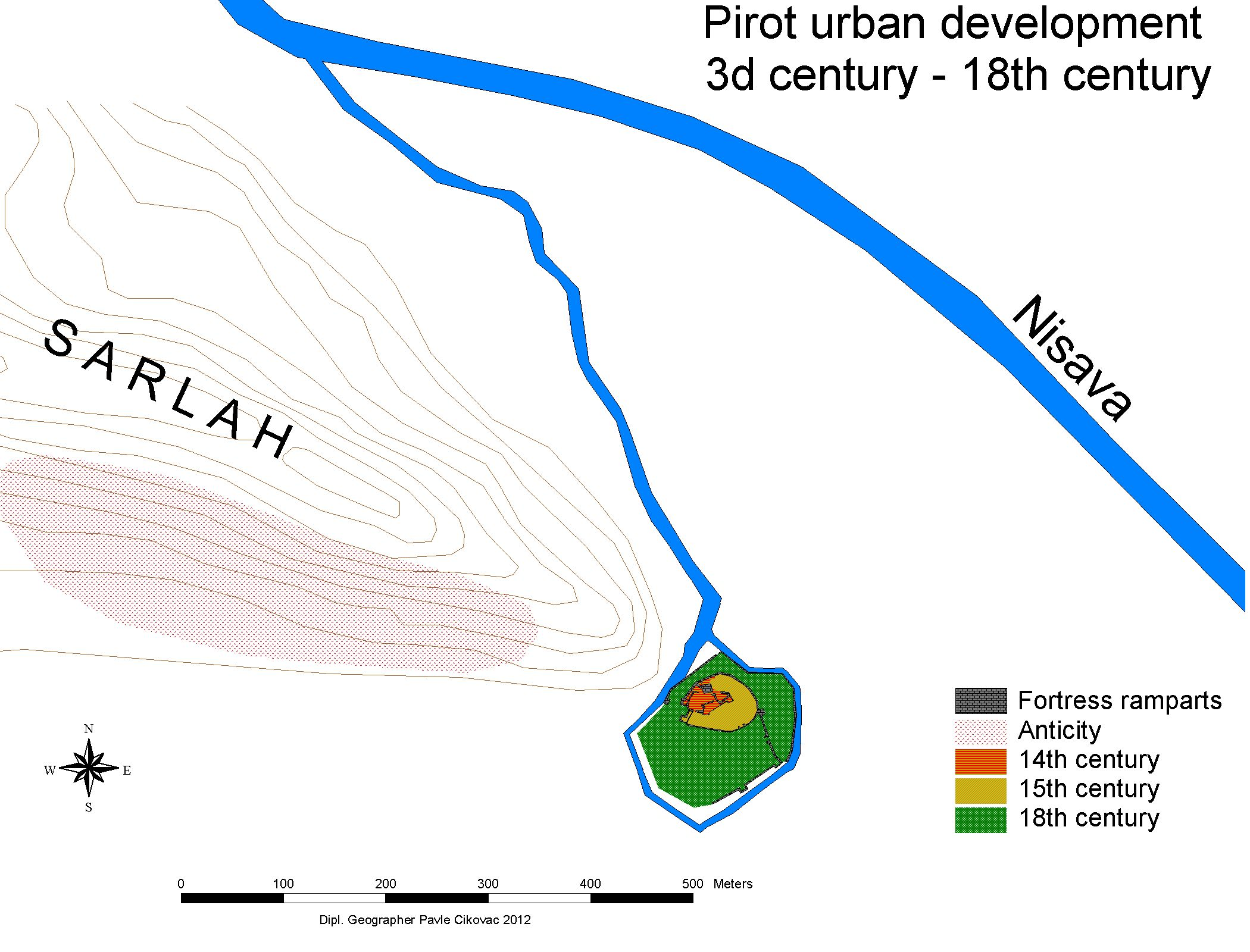 Urban developement of Pirot from anticity to the ottoman periode